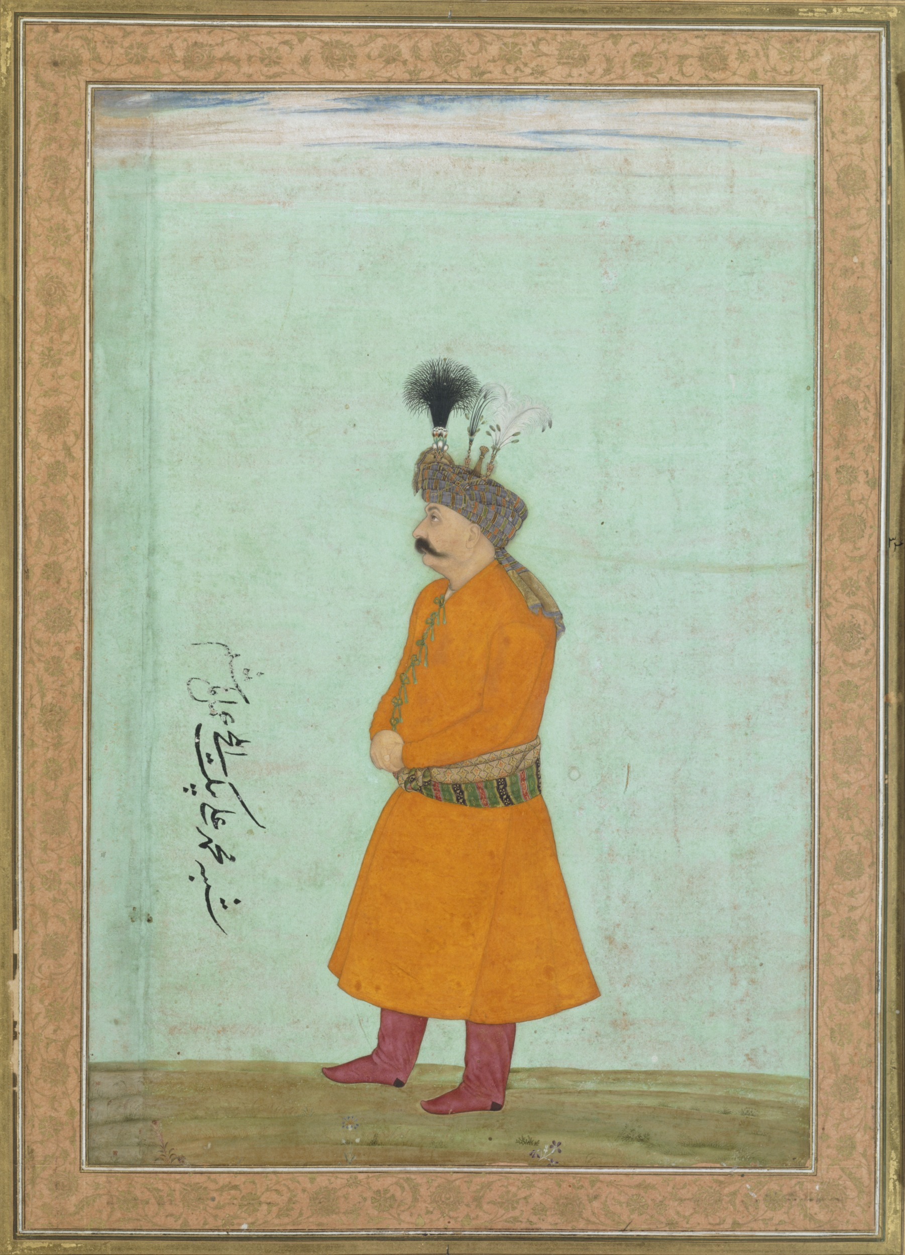 Muhammad ‘Ali Beg was the ambassador sent to the Mughal court by Shah Abbas of Iran, arriving in time for the New Year festival in March 1631. He remained there until October 1632, during which time his portrait was painted by the royal artist, Hashim. The painting is inscribed in Persian ‘likeness of Muhammad Ali Beg, ambassador, the work of Hashim’, possibly by the Mughal emperor Shah Jahan. It was later mounted on a page with margins decorated with flowering plants and insects for inclusion in an album for the emperor.